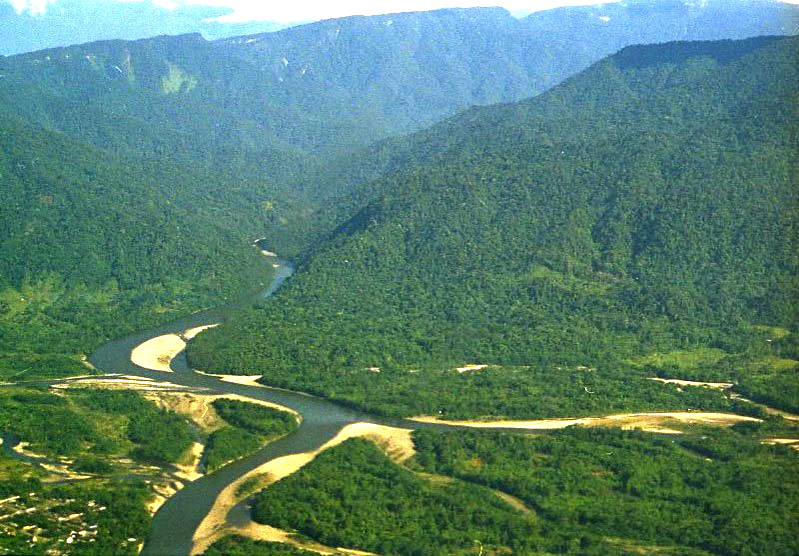 Aerial view of the national natural park Indi Wasi (It means House of Sun)